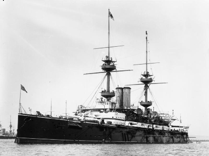 Photograph of British battleship HMS Magnificent at Spithead.